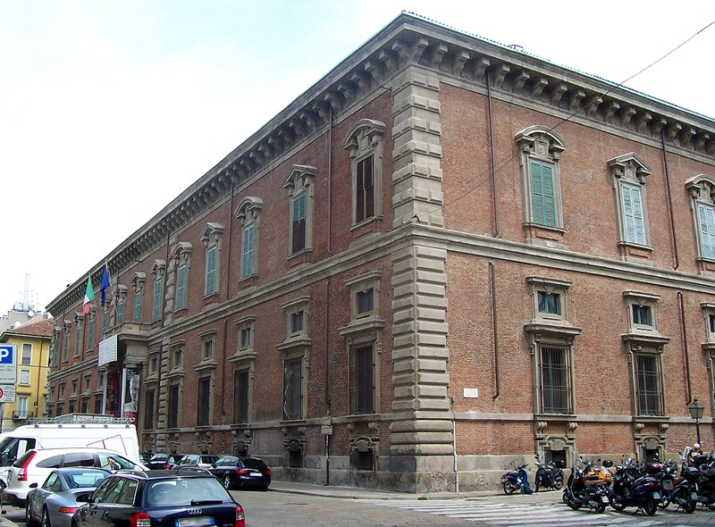 The Palazzo di Brera, which houses the Pinacoteca di Brera.